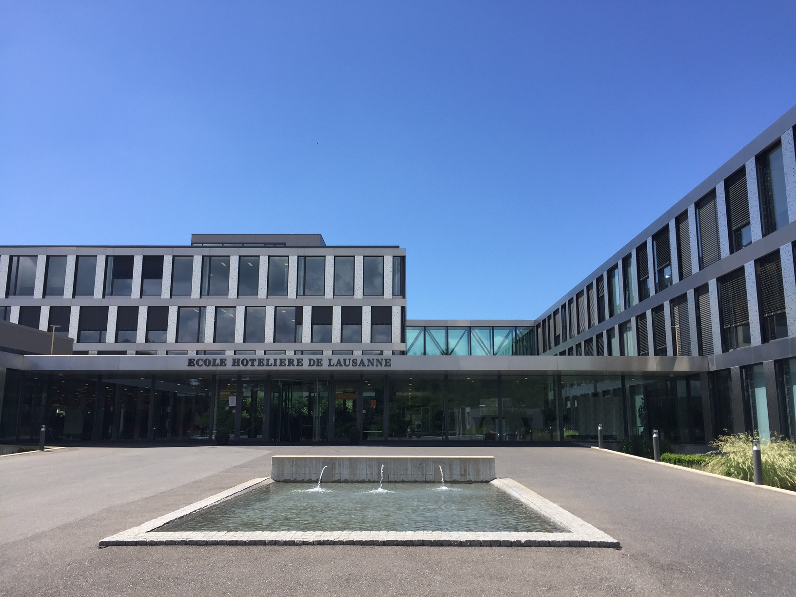 EHL - Entrance